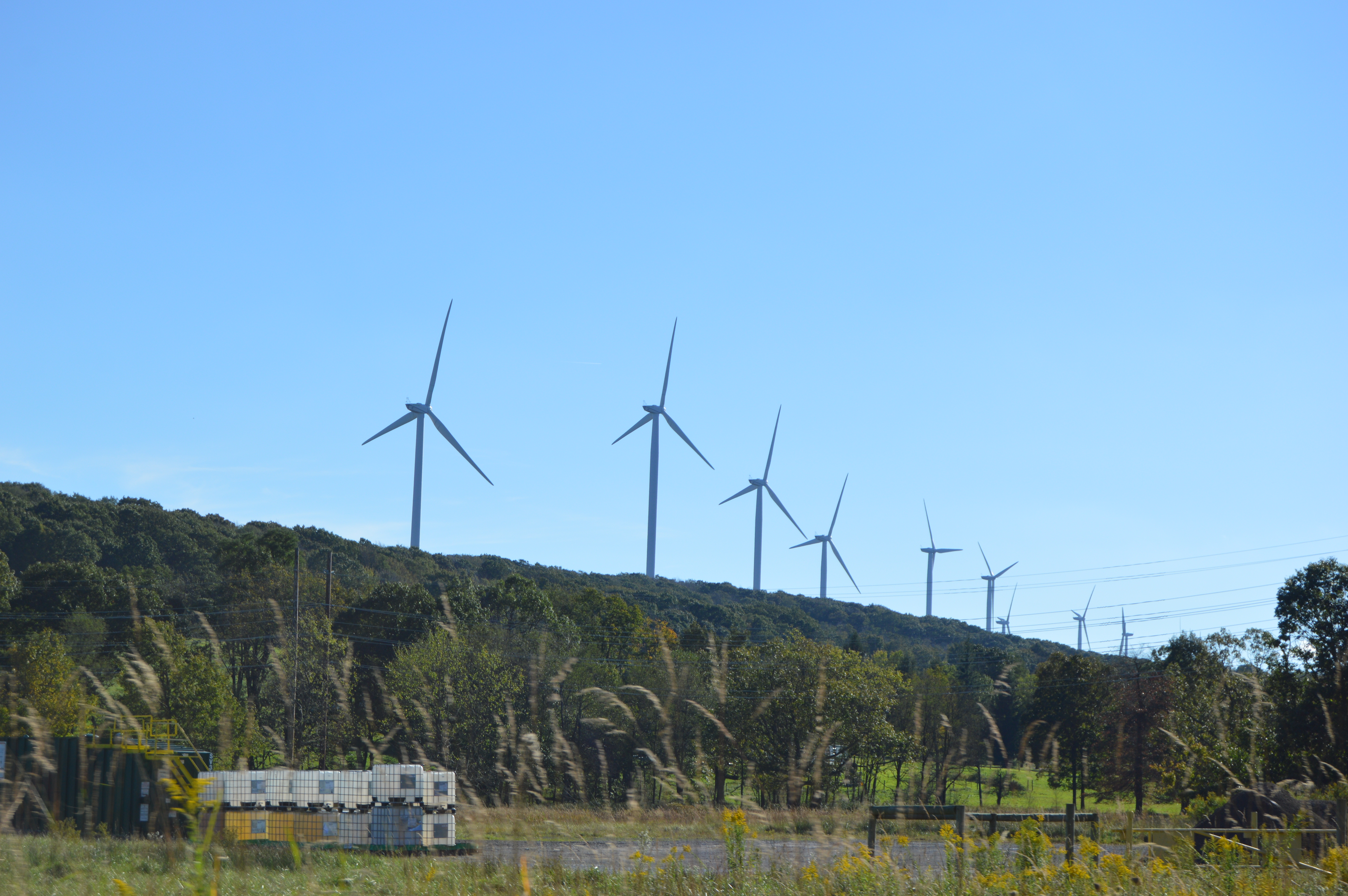 Wind turbines on the summit of Savage Mountain, seen looking south from Pennsylvania Route 160 near Pleasant Union in Southampton Township, Somerset County, Pennsylvania, United States.